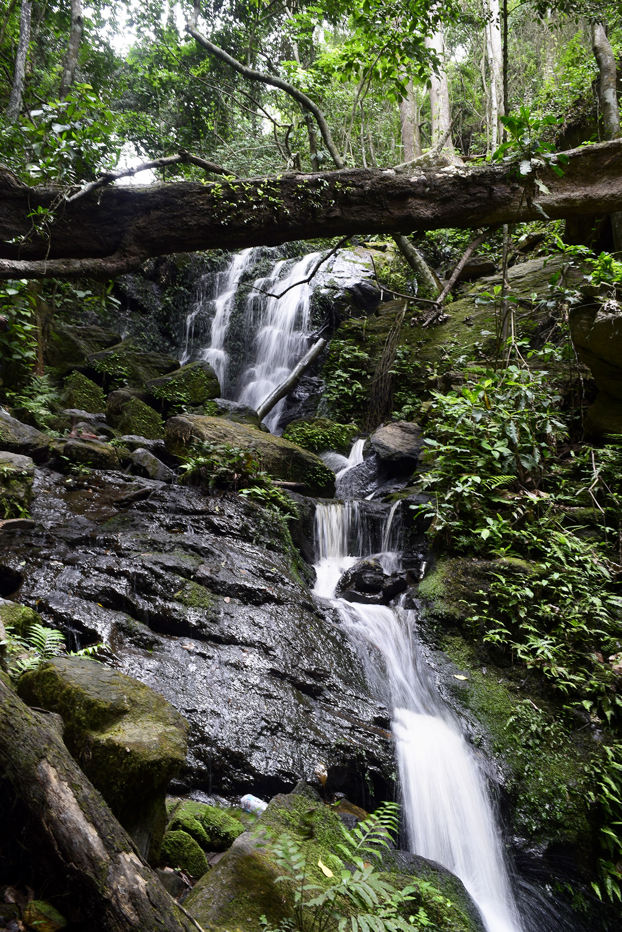 Olumirin Waterfalls, (3rd Level), Erin Ijesha, Yorùbá: omi eyi ti owa lati inu apata ni ori oke, olumirin ti awon touristi ma n lo ni ilu erin-ijesa